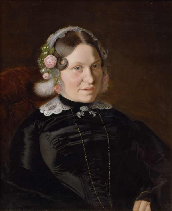 Fawkner, Eliza, 1801-1858.